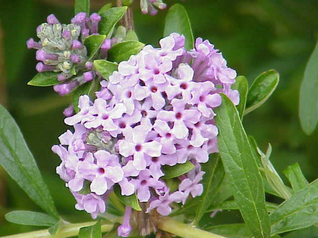 Species: Buddleja alternifolia Family: Buddlejaceae Image No. 1